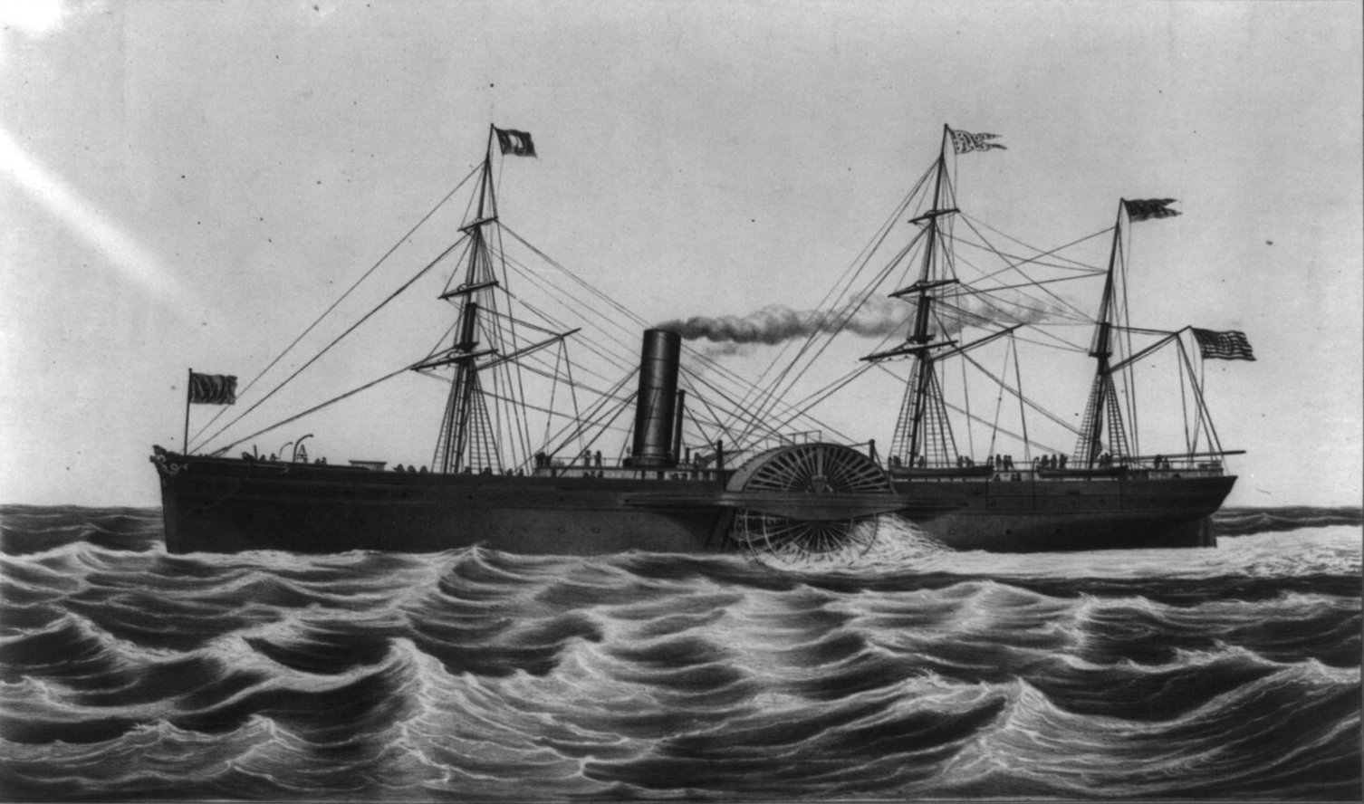 United States Mail steamship Arctic (launched 1850).